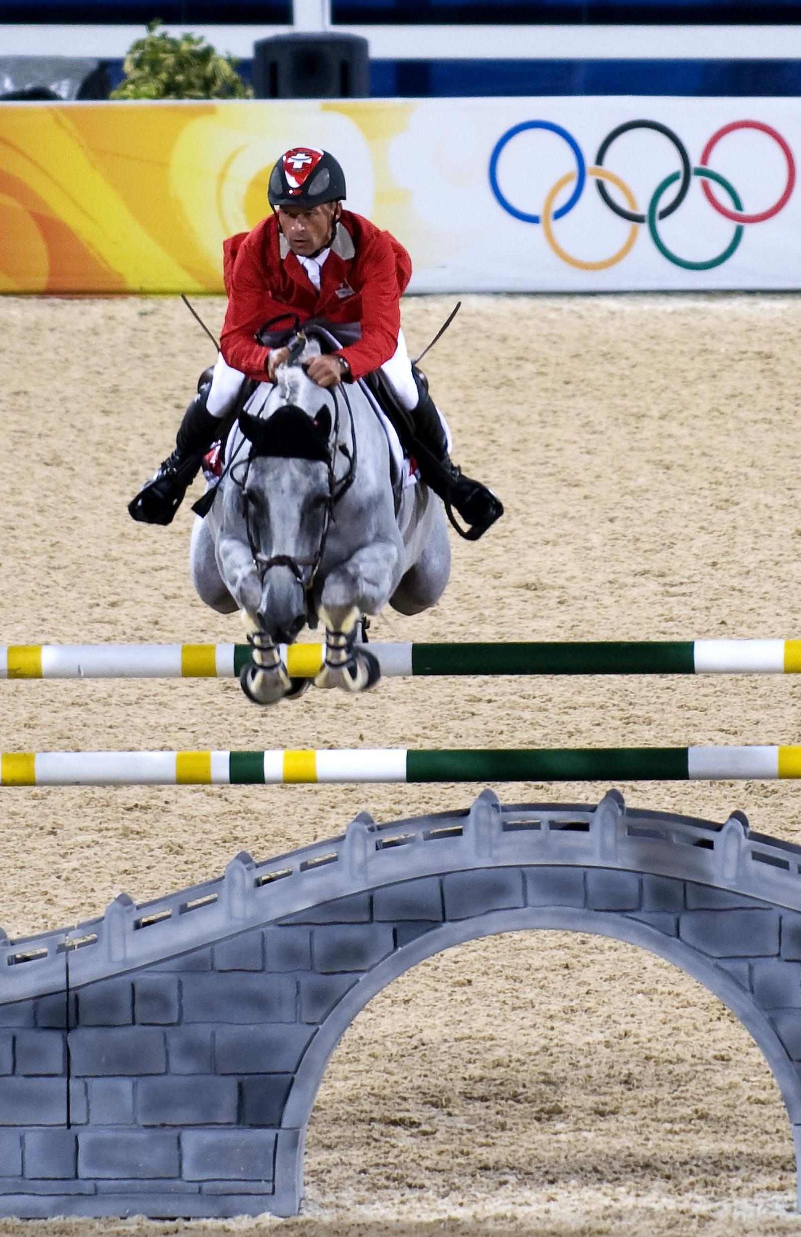 Swiss show jumping rider Pius Schwizer and Nobless M, Equestrianism at the 2008 Summer Olympics, Hong Kong.jpg